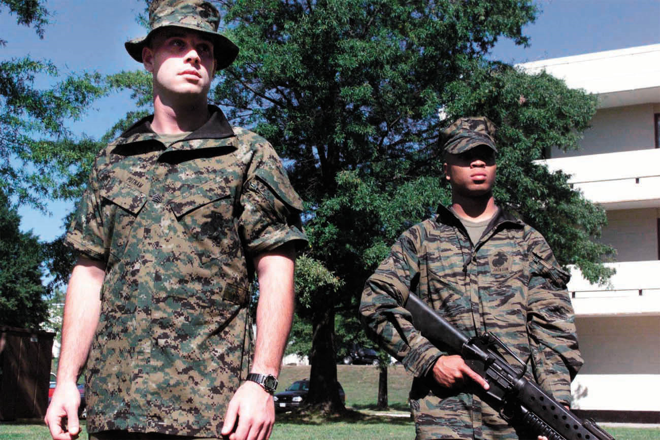 Two United States Marines test out prototype camouflage uniforms in 2001. The one on the left (viewer's left) has an early variant of the Marine Corps Combat Utility Uniform with removable sleeves, a feature that was later abandoned in the finished production version. The uniform on the right also features removable sleeves.